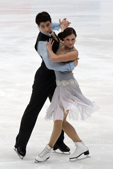 Tessa Virtue and Scott Moir at the 2011 Four Continents Championships.